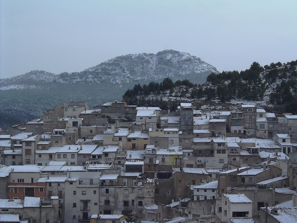 Moratalla (Murcia, Spain) and Buitre mountain in the background. February 2005. Own picture, given to PD.